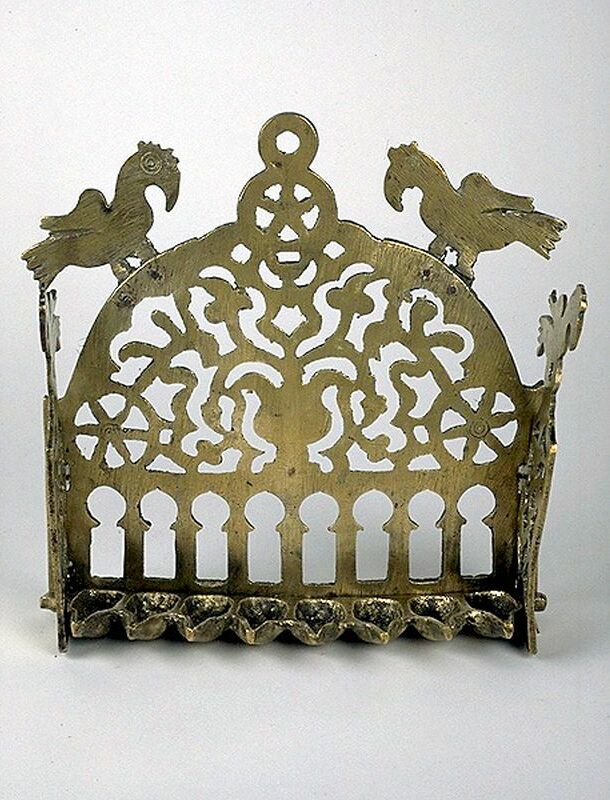 20th century Hanukkah lamp from Tunisia - Musée d'Art et d'Histoire du Judaïsme